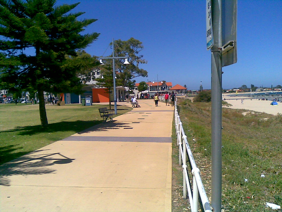 Image of the foreshore at Rockingham Western Australia.